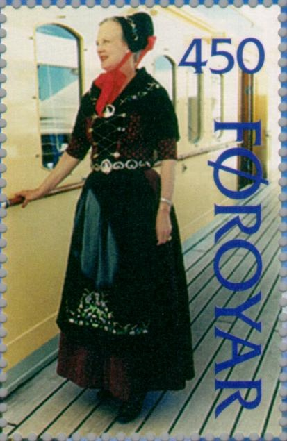 Margrethe II of Denmark in Faroese costume. Stamp FR 302 of Postverk Føroya, Faroe Islands Date of issue: 14 January 1997